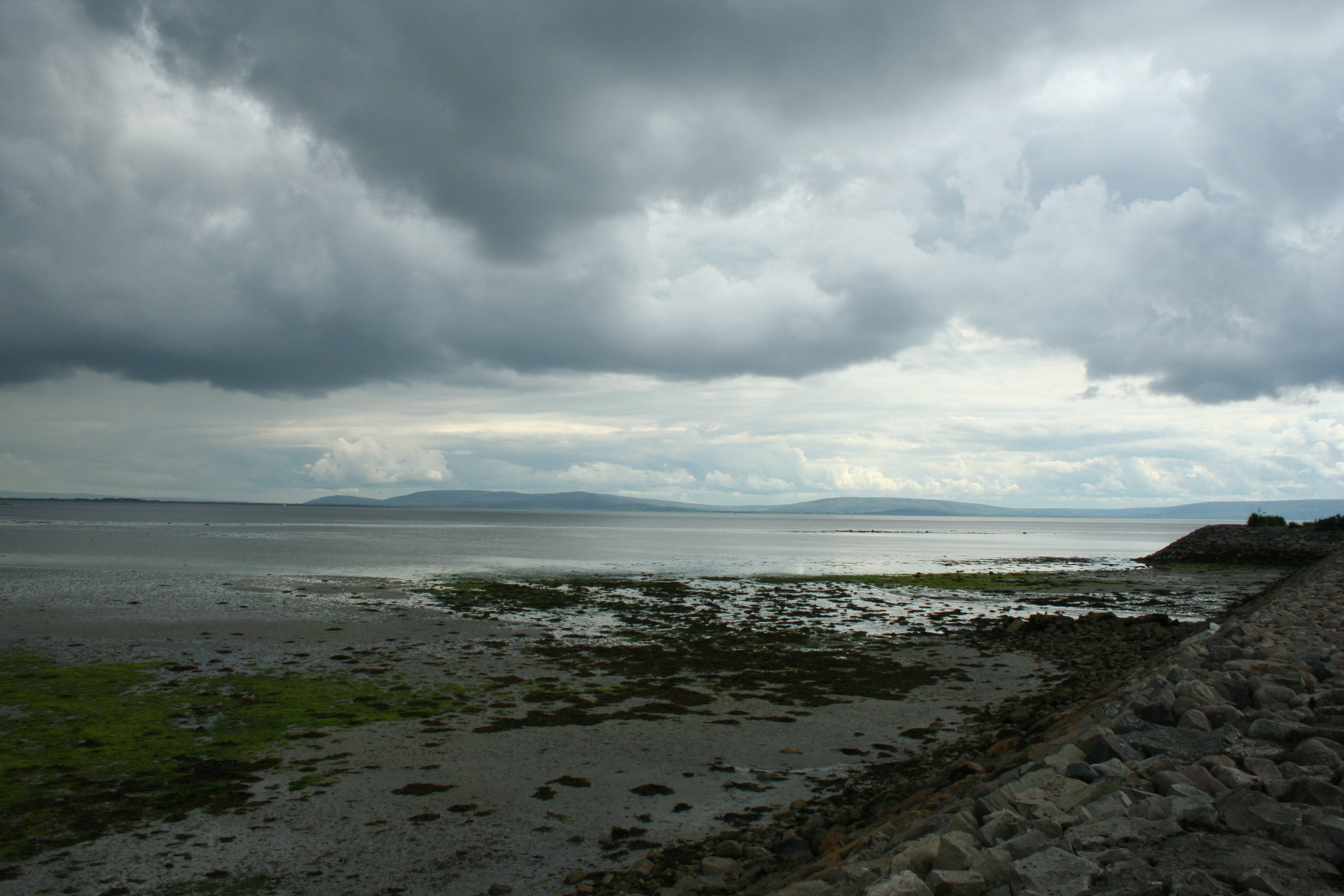 A view of Galway Bay from Salthill Credit: A Peter Clarke image